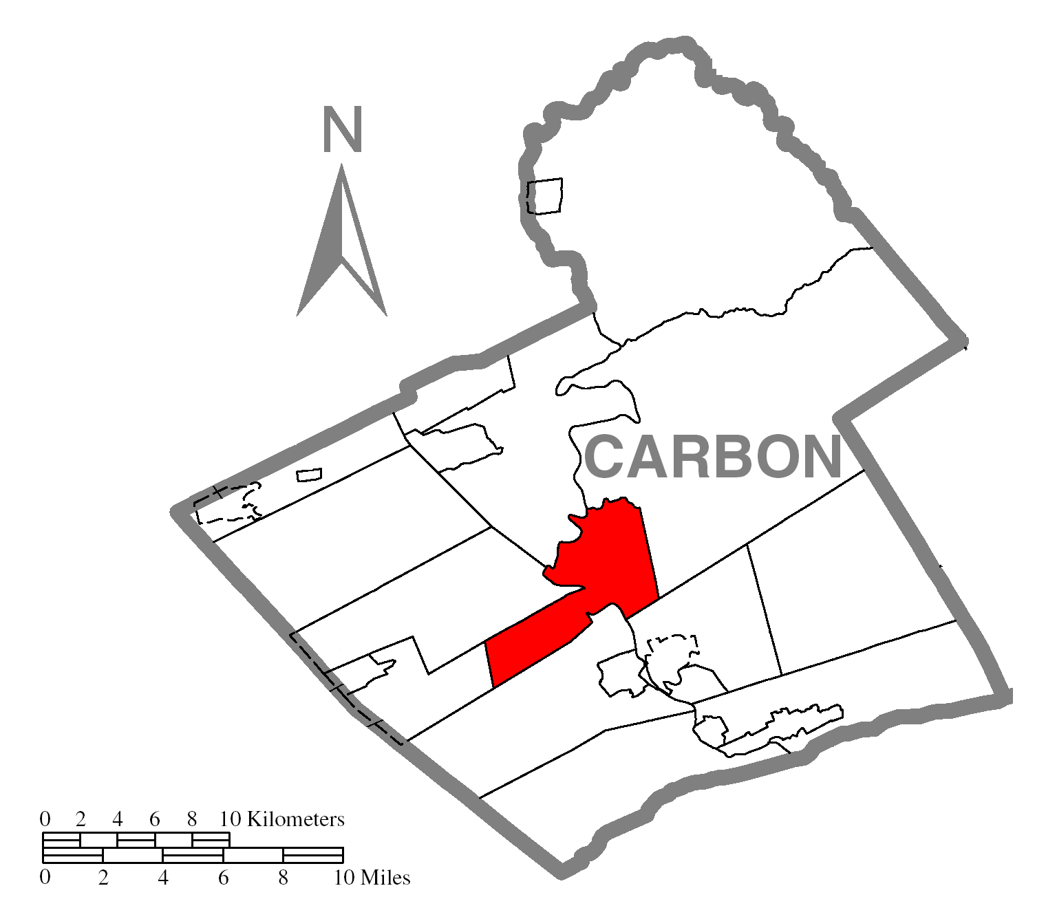 A map of Carbon County showing Jim Thorpe, Pennsylvania (alternate) highlighted on the map.